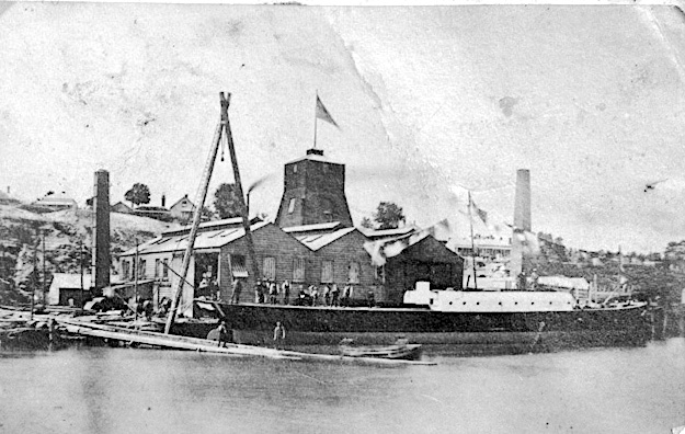 S S Rotomahana berthed alongside Fraser and Tinnes foundry, Mechanics Bay in 1876